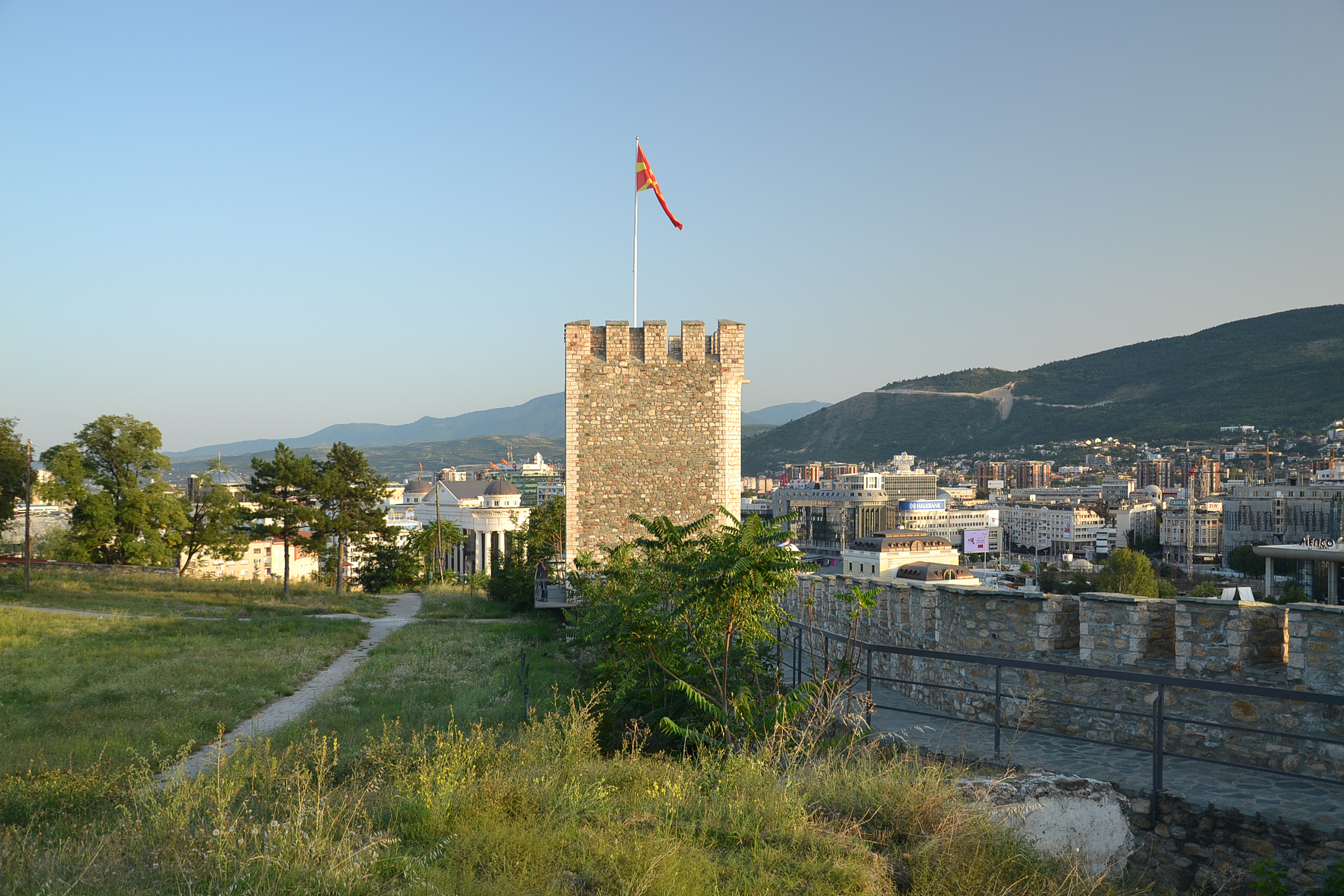 Skopje Fortress, Macedonia